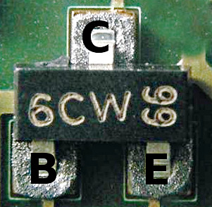 Typical pin assignment of SMD transitor: Basis - Collector - Emitter (6CW == BC817-40)